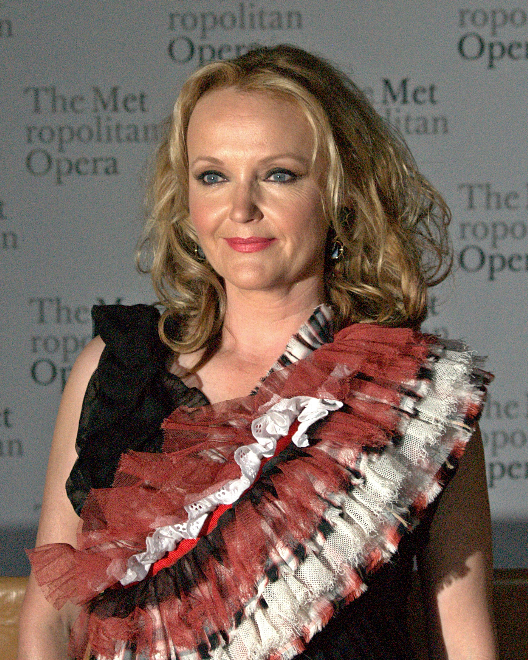 Miranda Richardson at Metropolitan Opera's 2010-11 Season Opening Night - "Das Rheingold"